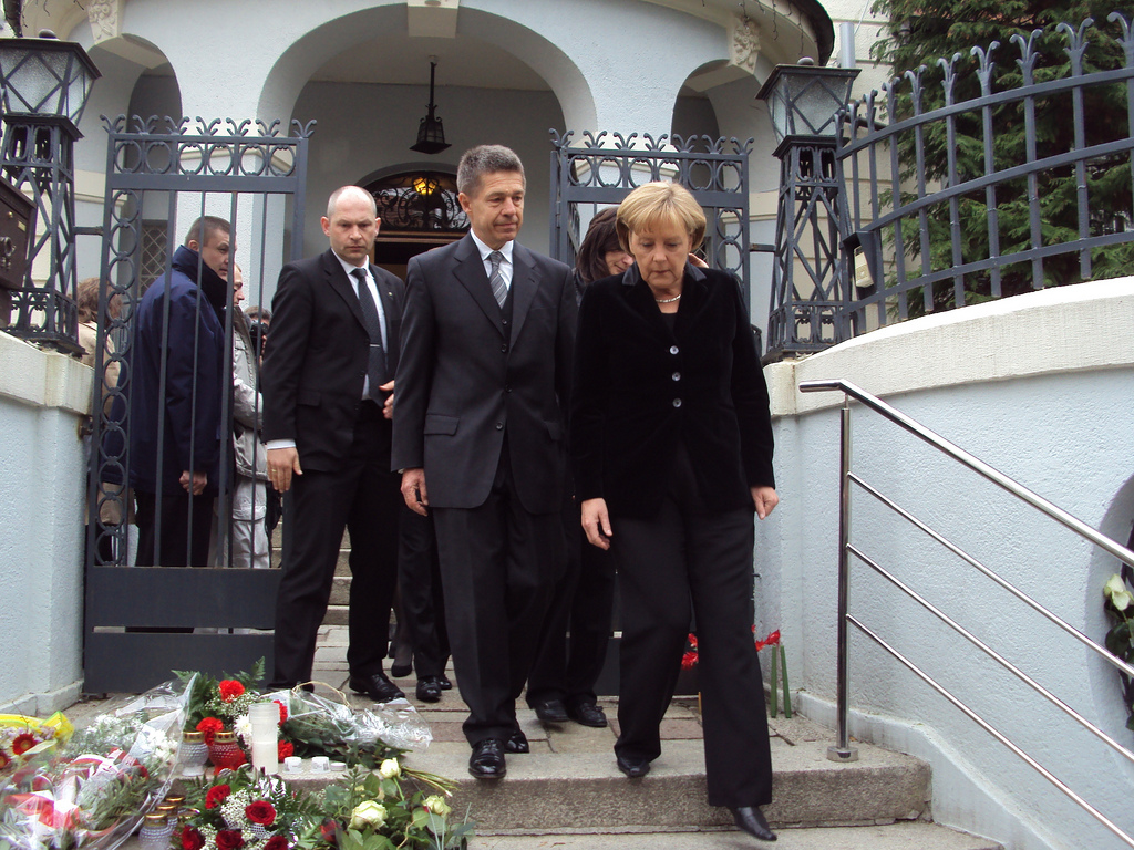 Chancellor of Germany, Angela Merkel, leaving the Polish Embassy in Berlin with her husband, after she has written a note in the condolence book.